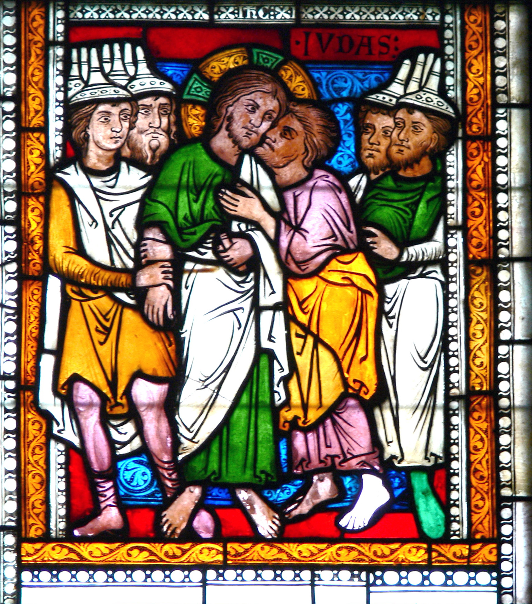 Dalhem Kyrka in Gotland. Stained glass windows: Kiss of Judas. This window is medieval, according to Johnny Roosval